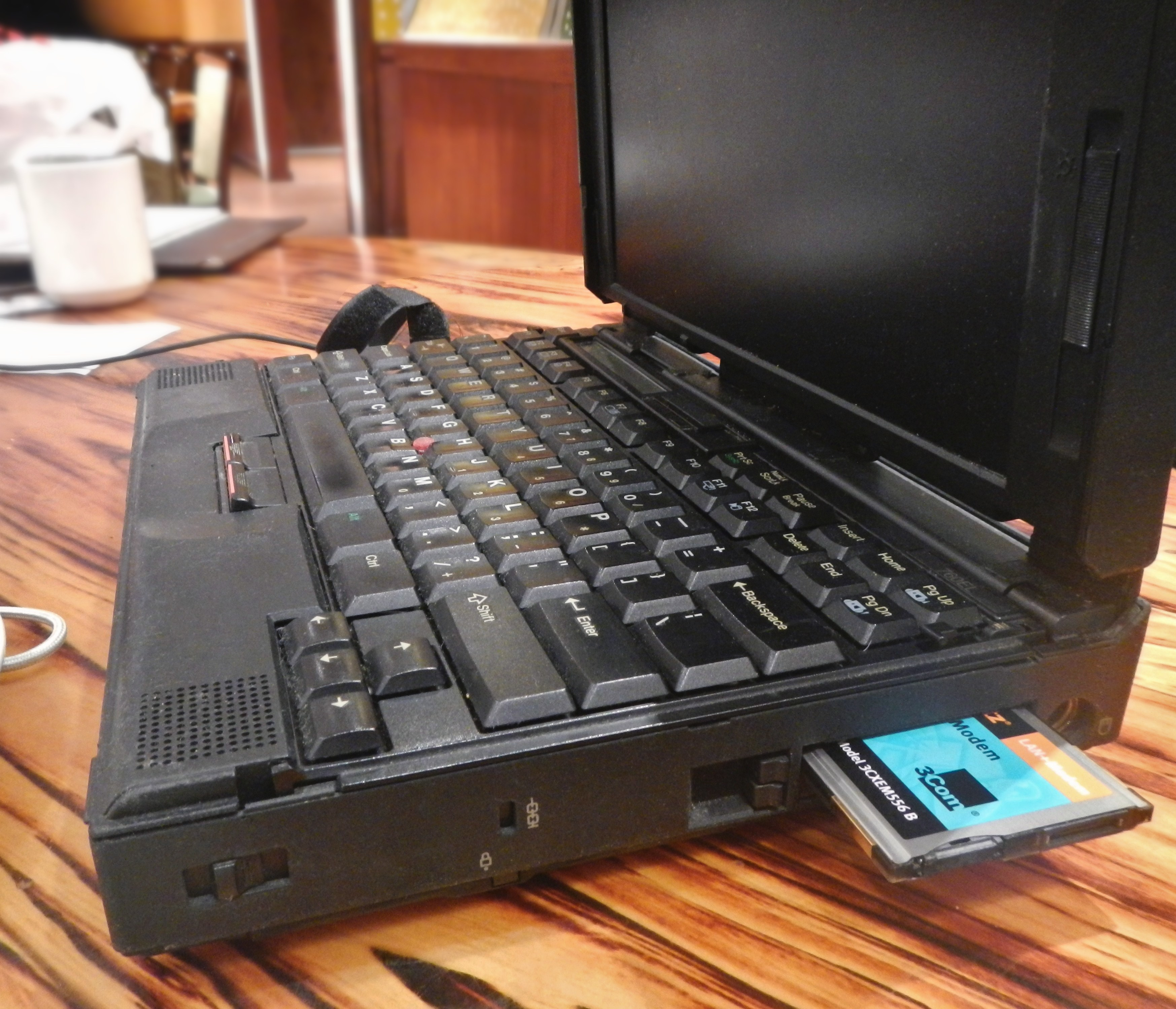 Old Thinkpad with 3Com Ethernet / modem PCMCIA card sticking out.